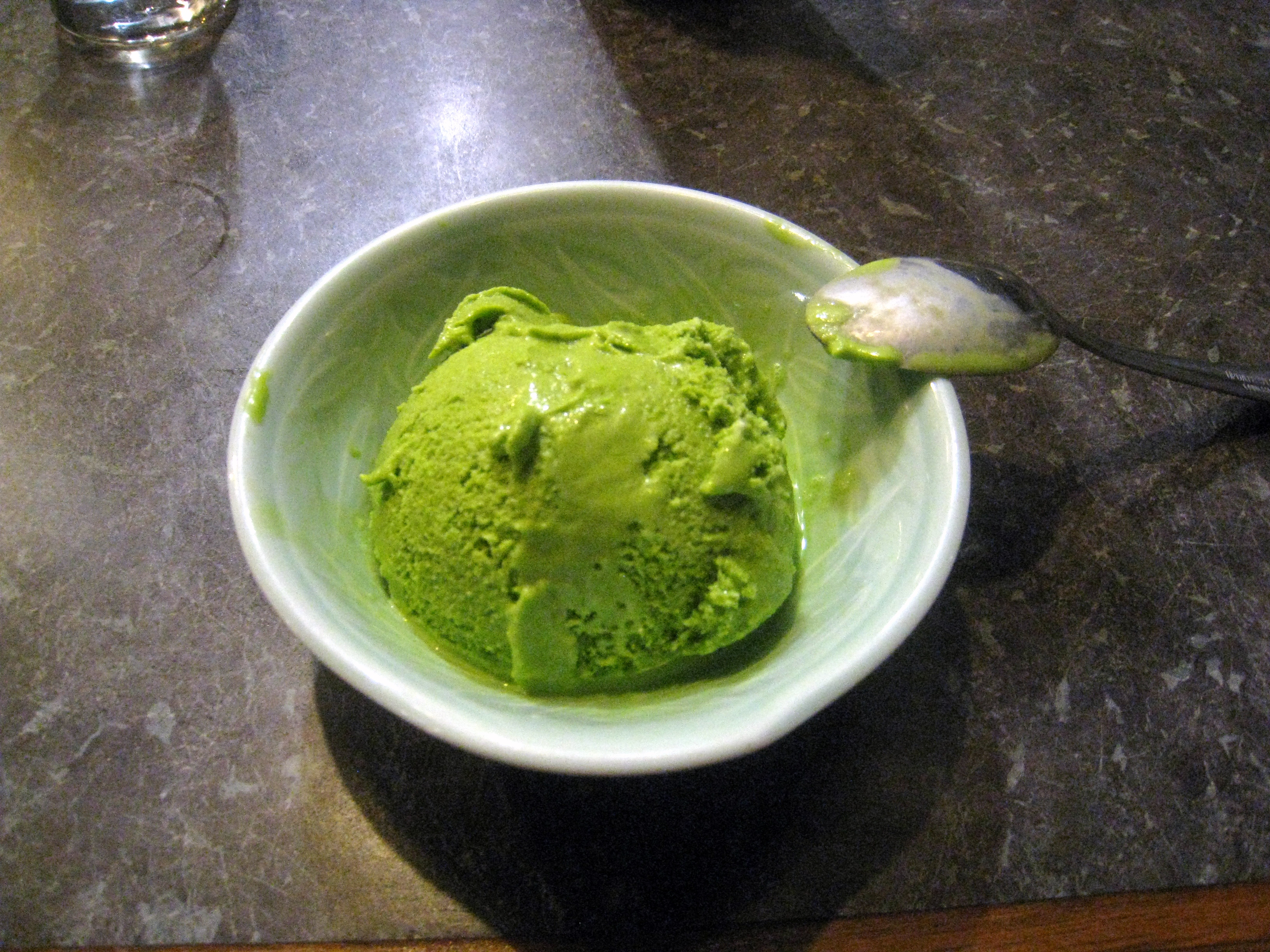 green tea ice cream